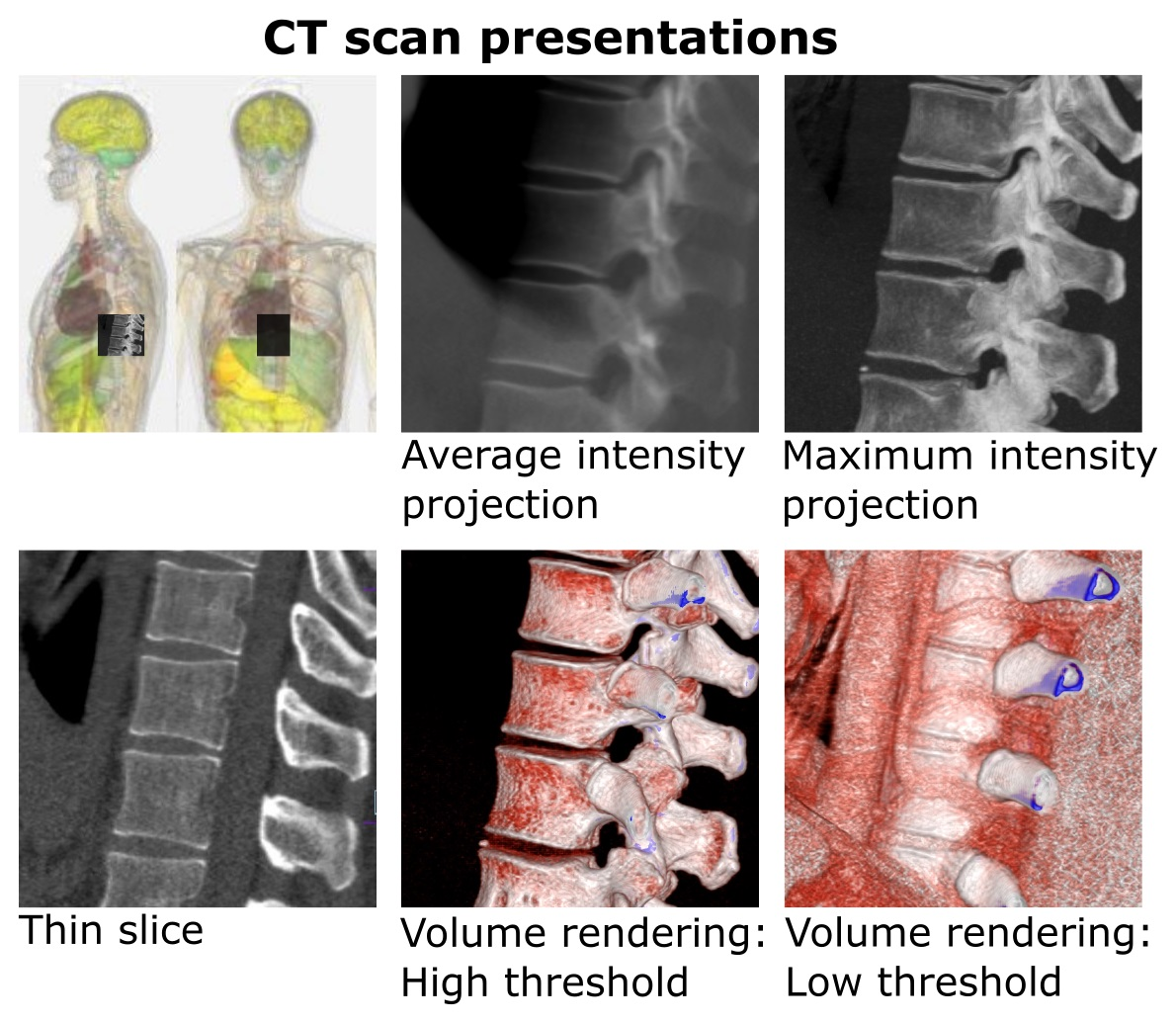 edit Presentations of computed tomography by thin slice, average intensity projection, maximum intensity projection, high threshold volume rendering and low threshold volume rendering. The presented volume includes thoracic vertebrae 10, 11 and 12, as well as half lumbar vertebra 1. The projection and volume renderings include 3 cm from each side of the median plane. The low threshold volume rendering also visualizes the thoracic descending aorta (larger vessel) and the hemiazygos vein (attached to the vertebrae). The presentations are taken from a high-resolution computed tomographs of normal vertebrae of a 37 year old man who presented with unspecific breathing problems, published with written informed consent.